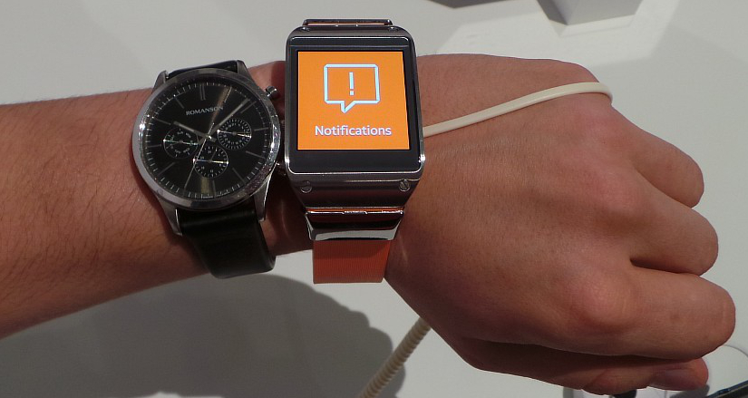 The Samsung Galaxy Gear in comparison with a clock.